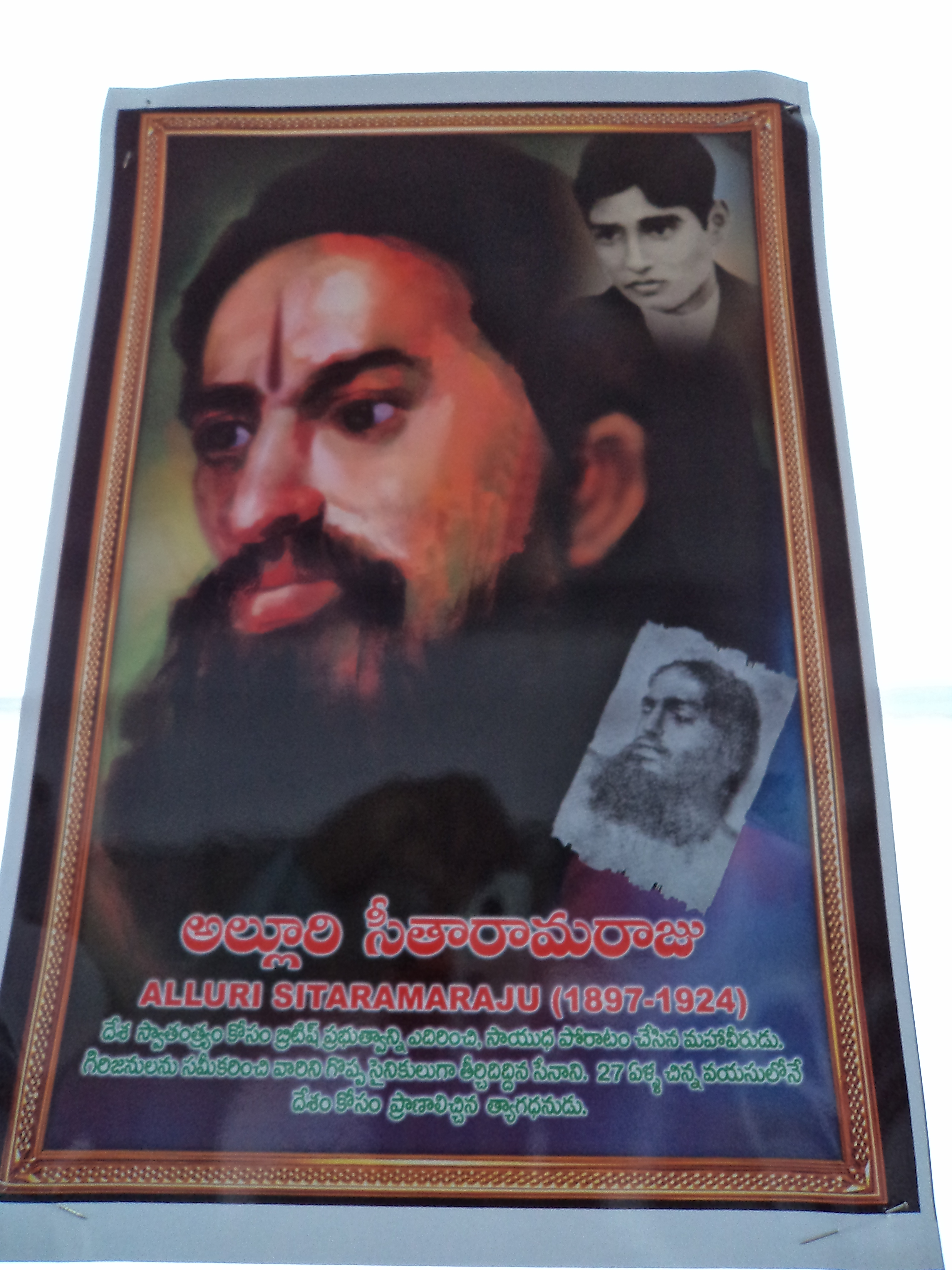 Portrait of Alluri Seetaramaraju